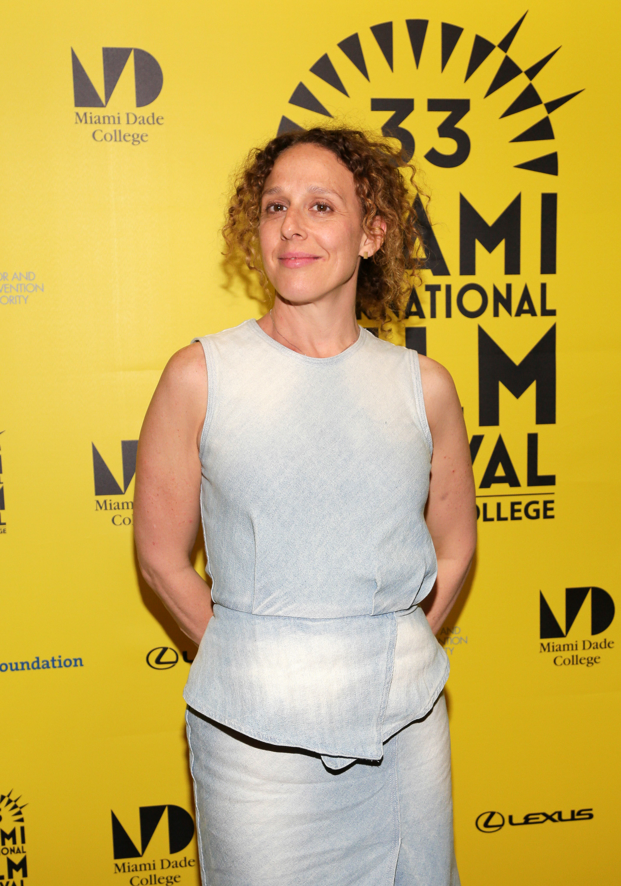 Rachel Grady at the Miami Film Festival presentation of "Norman Lear: Just Another Version of You" Photo: Alberto Tamargo